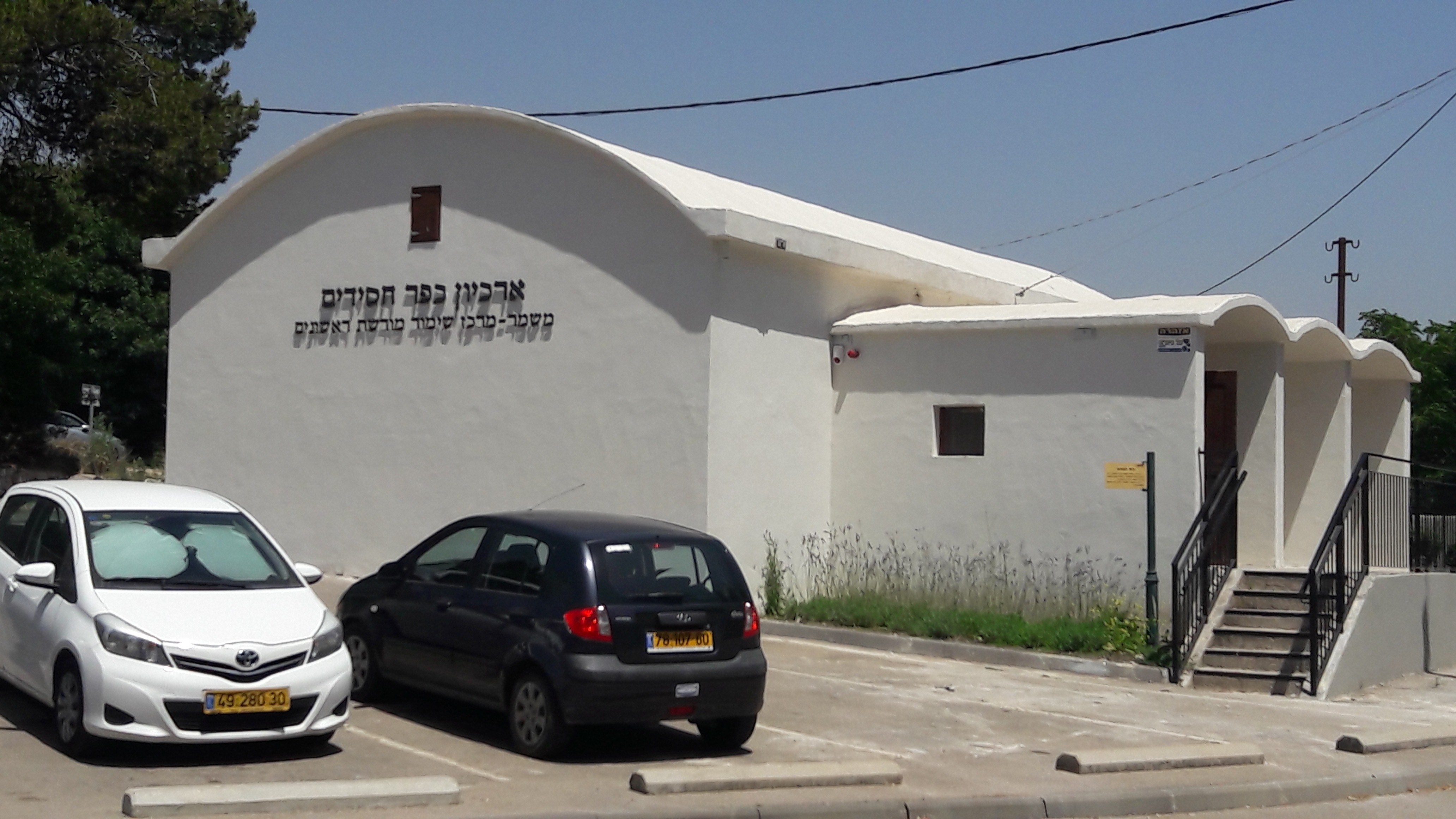 Refrigeration Bulding in Kfar Hasidim which underwent renewal